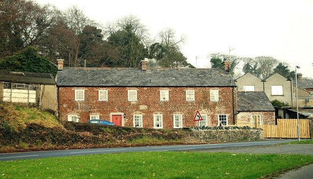 Former millhouses, Lenaderg (2009). See 1106299. The present view - after restoration.